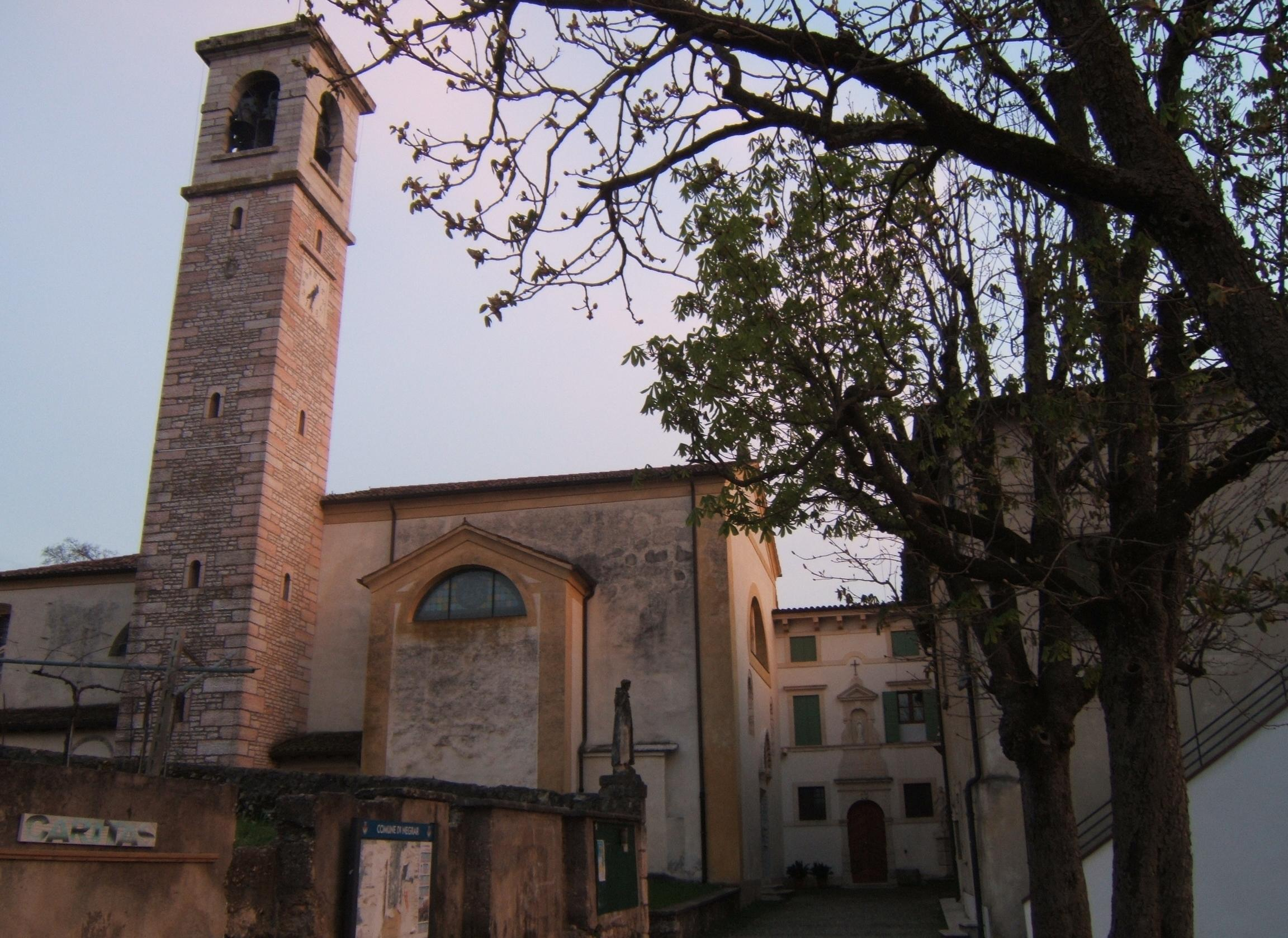 Photo of the Church of Arbizzano